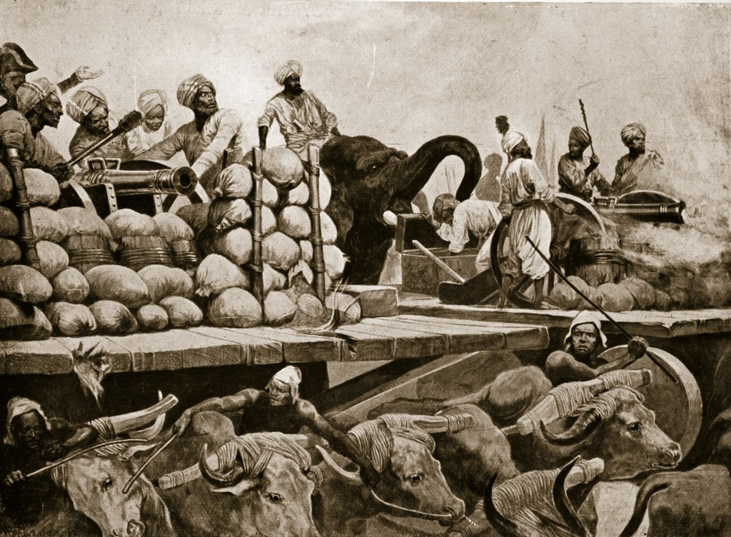 Battle of Plassey, 23rd June 1757; Decisive British East India Company victory over the Nawab of Bengal and his French allies, establishing Company rule in India